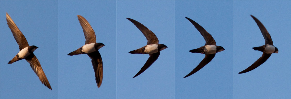 A collage of Alpine Swift photographs from Spain.